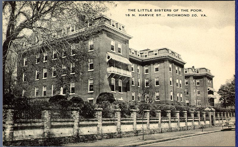 The Little Sisters of the Poor facility in Richmond, Virginia.